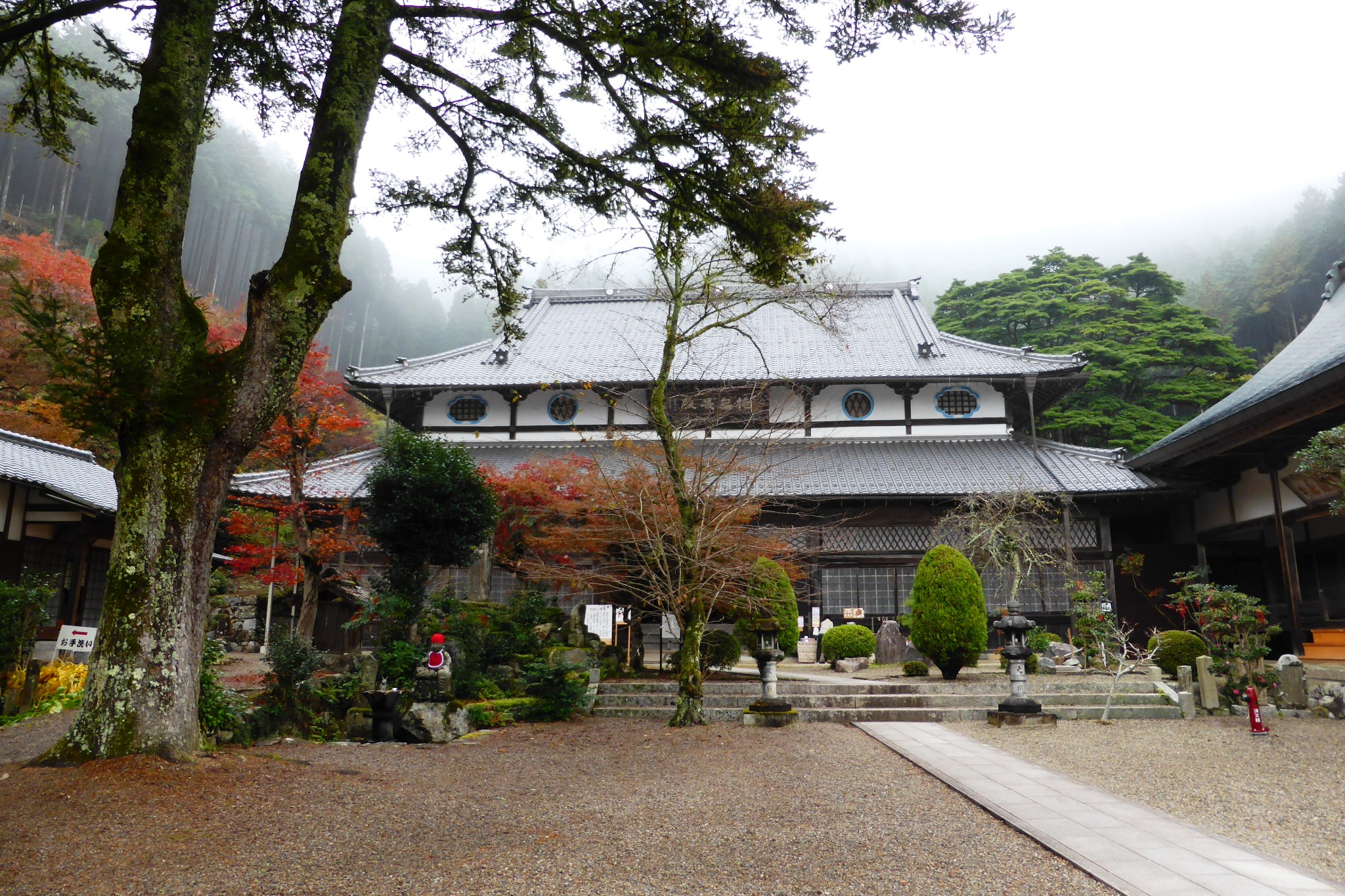 Entsu-ji, Hondo (Main Hall) -1 (November 2013)